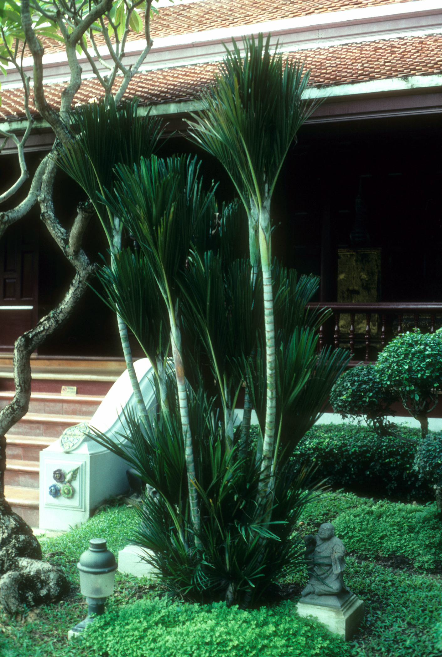 Dypsis Lutescens, A strange, strict form of a familiar cultivated palm. Prasart Museum, Bangkok, Thailand. Sept 1998. Location: Bangkok.